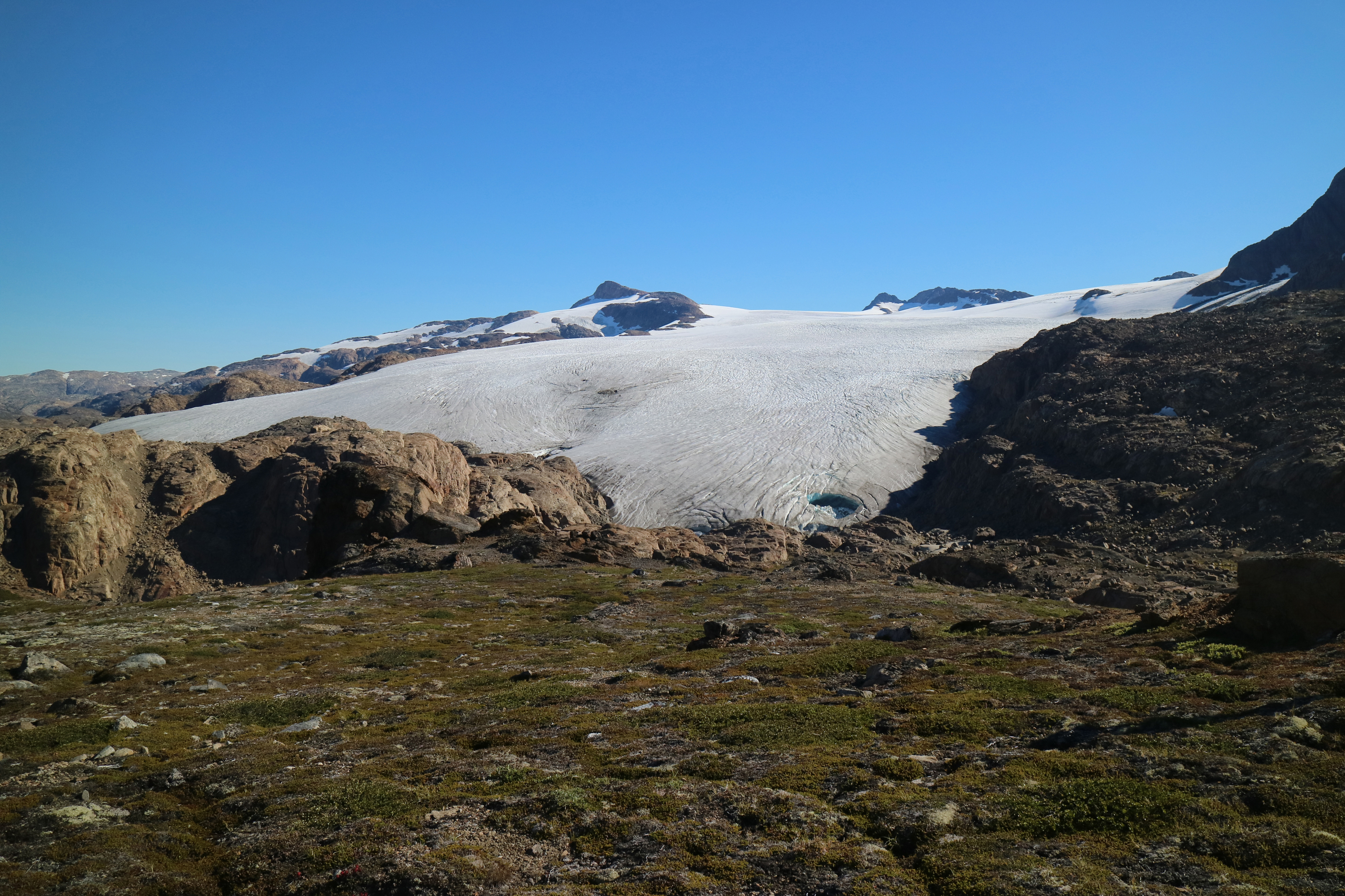 Mittivakkat glacier on Ammassalik Island, South East Greenland